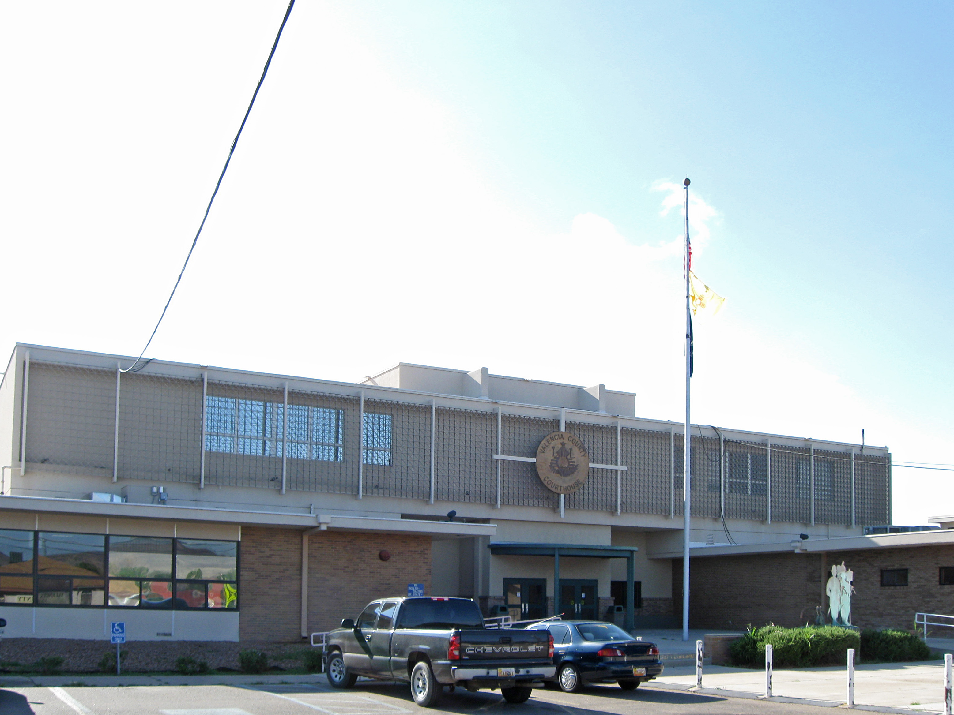 Valencia County Courthouse, located at 444 Luna Street in Los Lunas, New Mexico.